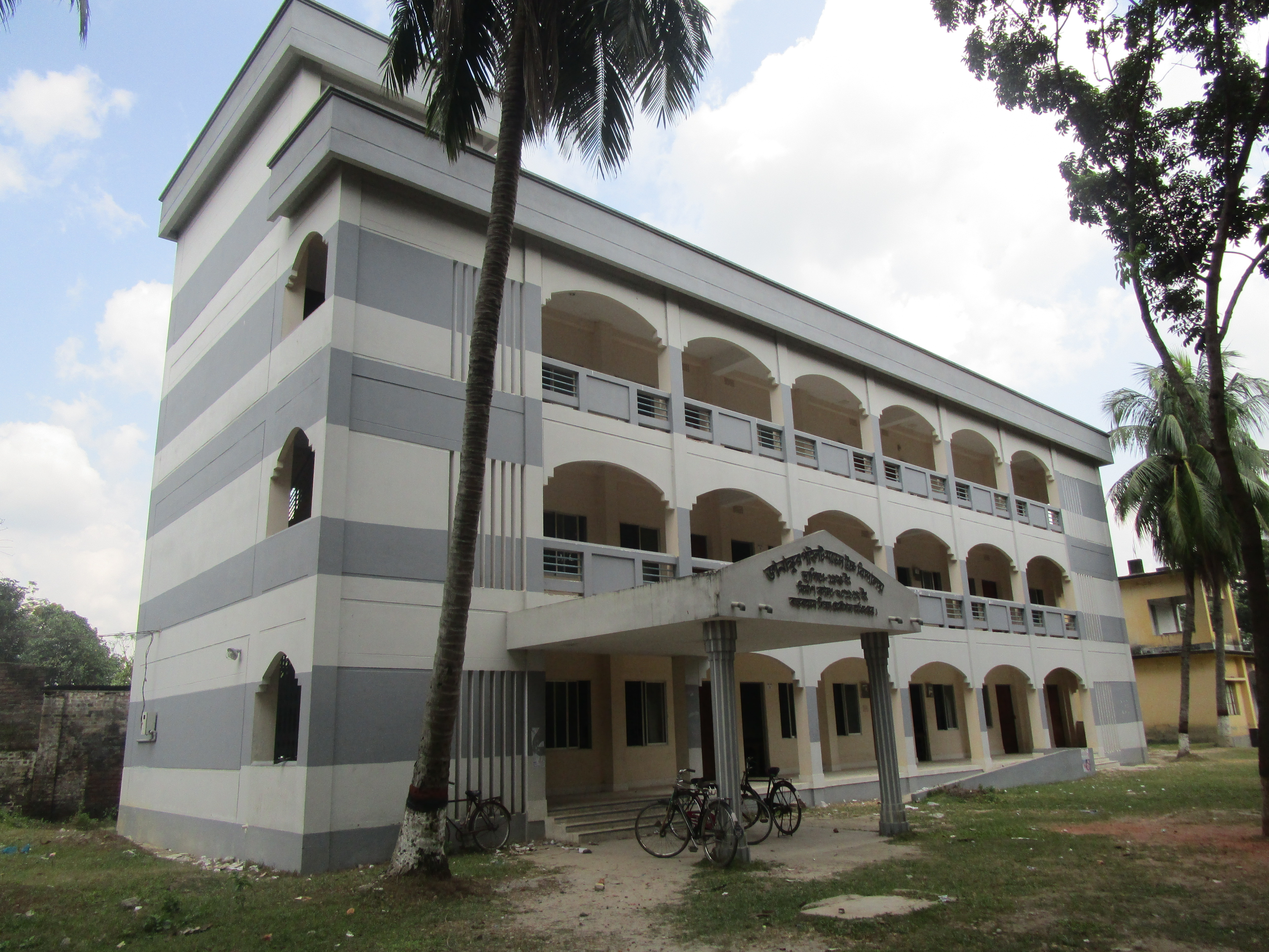 The main building of Gayankur Pilot High school.